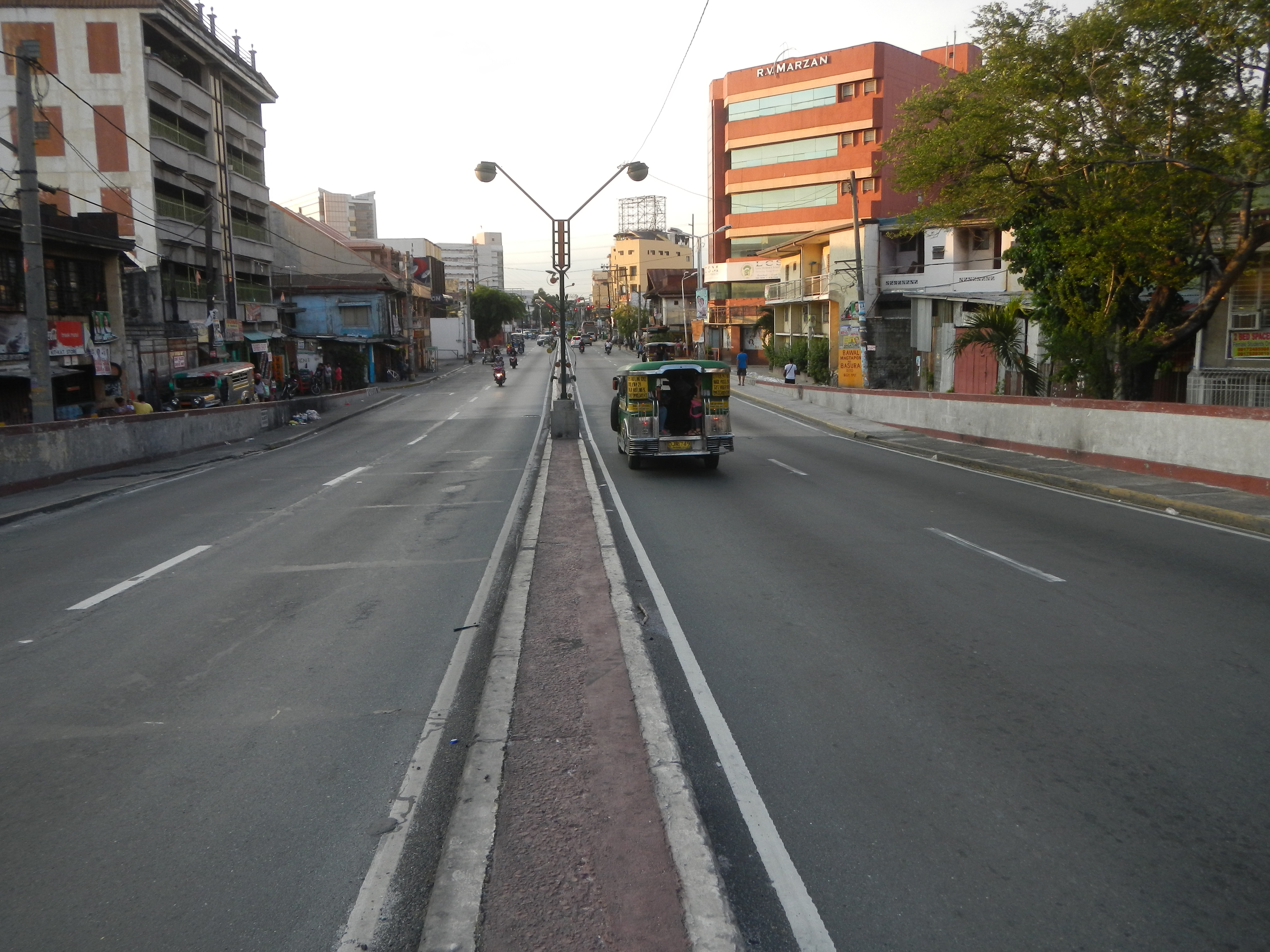 Dimasalang Bridge B01820LZ Load Limit 20 metric Tons (KM 4+824.50 List of barangays of Metro Manila Legislative districts of Manila Barangays 474, Zone 48 and 497, Zone 49, District IV, Dimasalang, Sampaloc, Manila (in Dimasalang Street Circumferential_Road_2 Radial Road 8 in front of the Old Antipolo Street & New Antipolo Street Barangays 363, 364 and 368 from and along the Blumentritt LRT Station, Blumentritt railway station (PNR Metro Commuter Line, Blumentritt station KM2.700, of the Strong Republic Transit System PNR Metro South Commuter Line to and from P. Guevarra Street and Cavite Street, Tecson Street and Leonor Rivera Street in the Pedestrian Overpass Bridge (Aurora Boulevard, Santa Cruz, Manila) Blumentritt Road).